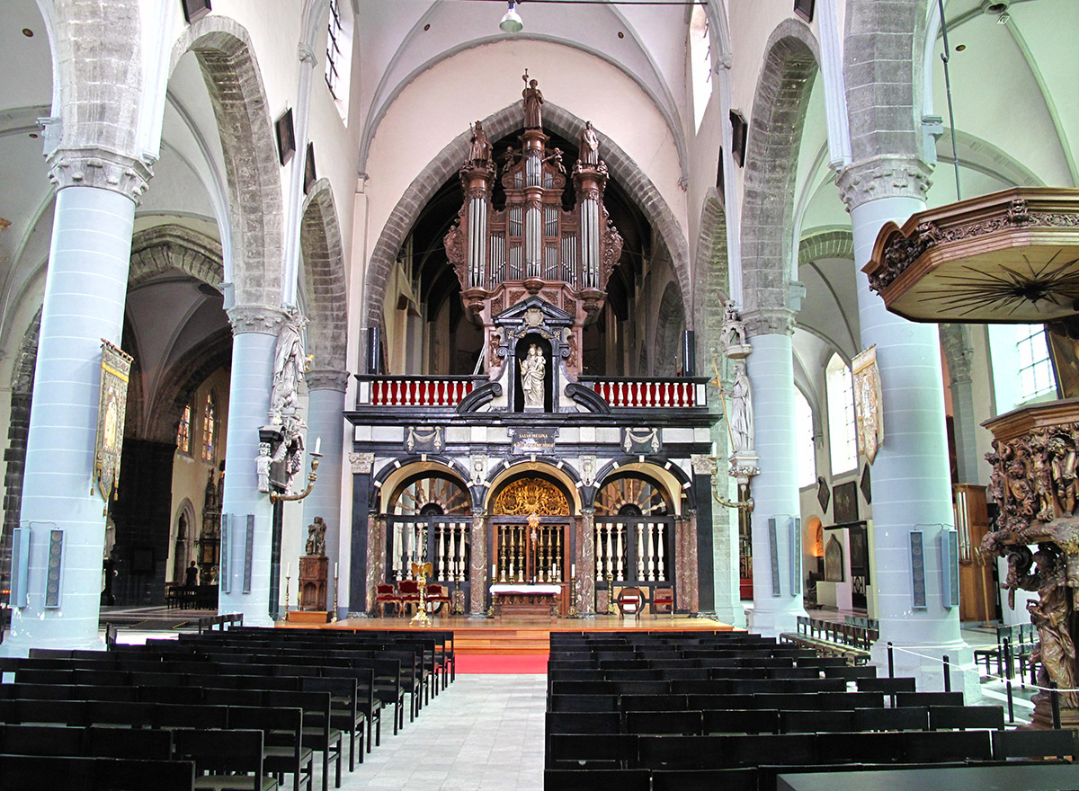 Interior of Sint Jakob church in Bruges, Belgium